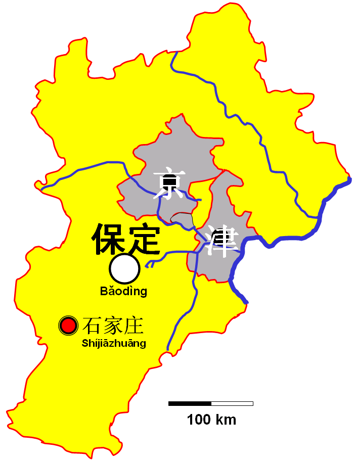 Description: position of Baoding in China Source: own work Date: December 2005 Author: --Immanuel Giel 13:27, 15 December 2005 (UTC) Other versions: none Baoding Baoding Baoding